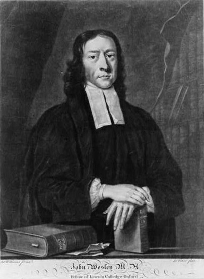 John Wesley (1703-1791), founder of Methodism